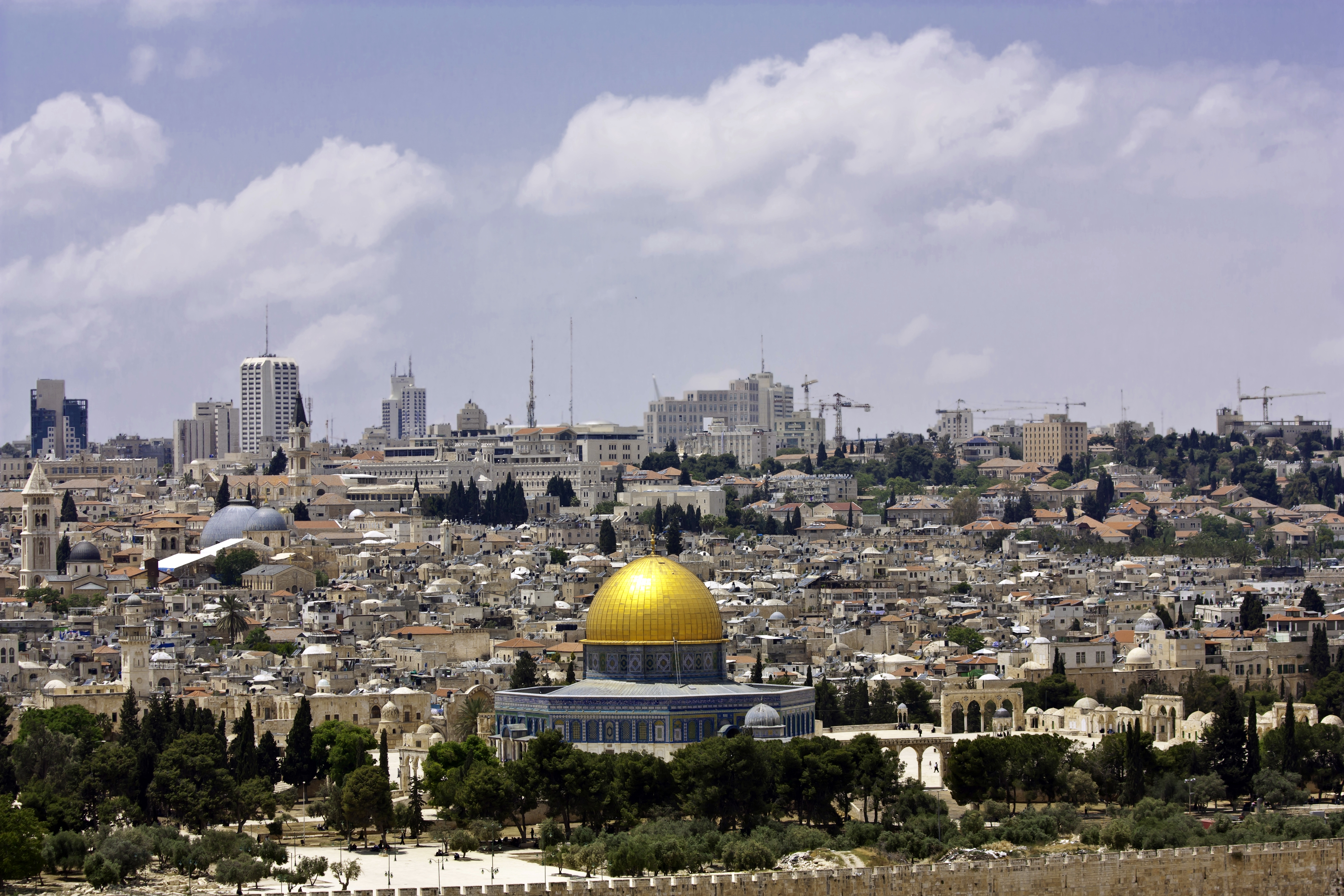 Dome of the Rock, Jersaulem, Israel